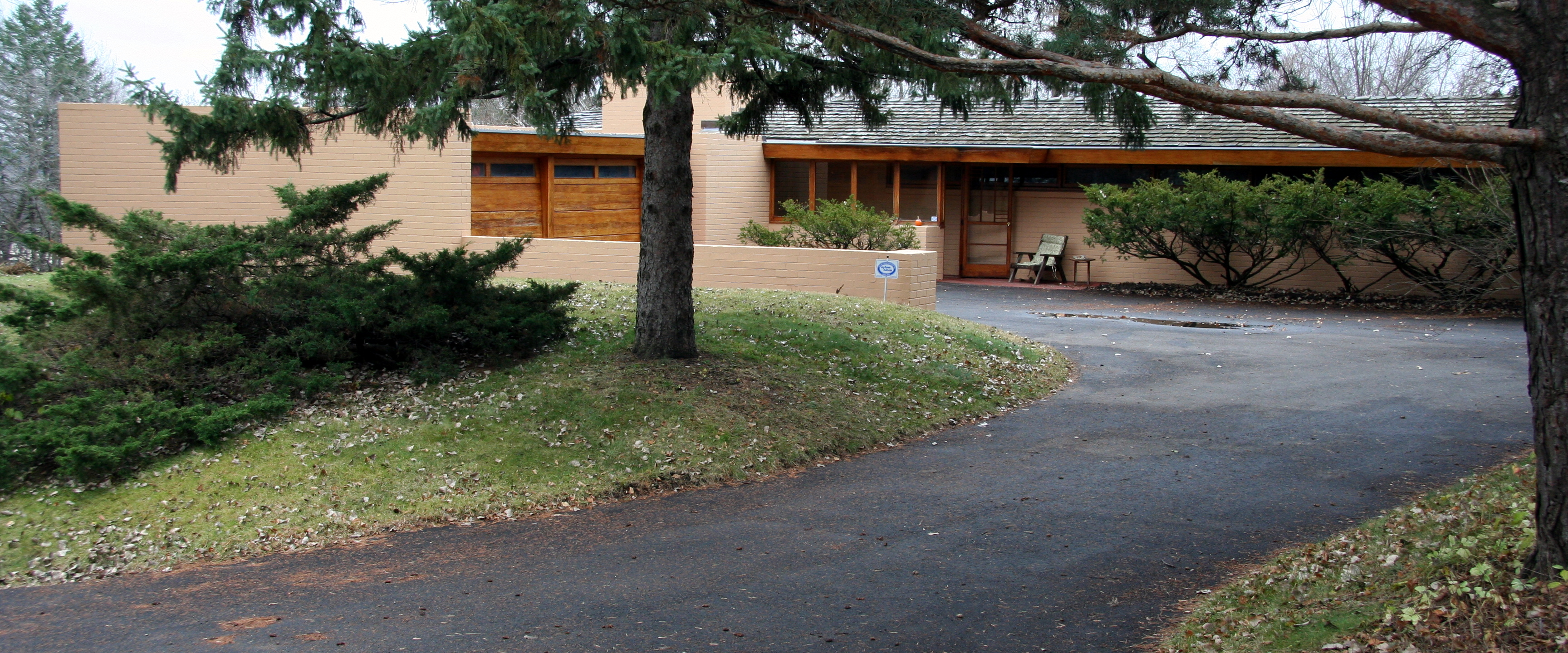 The driveway and entrance to the A. H. Bulbulian Residence, designed by Frank Lloyd Wright, in Rochester, Minnesota